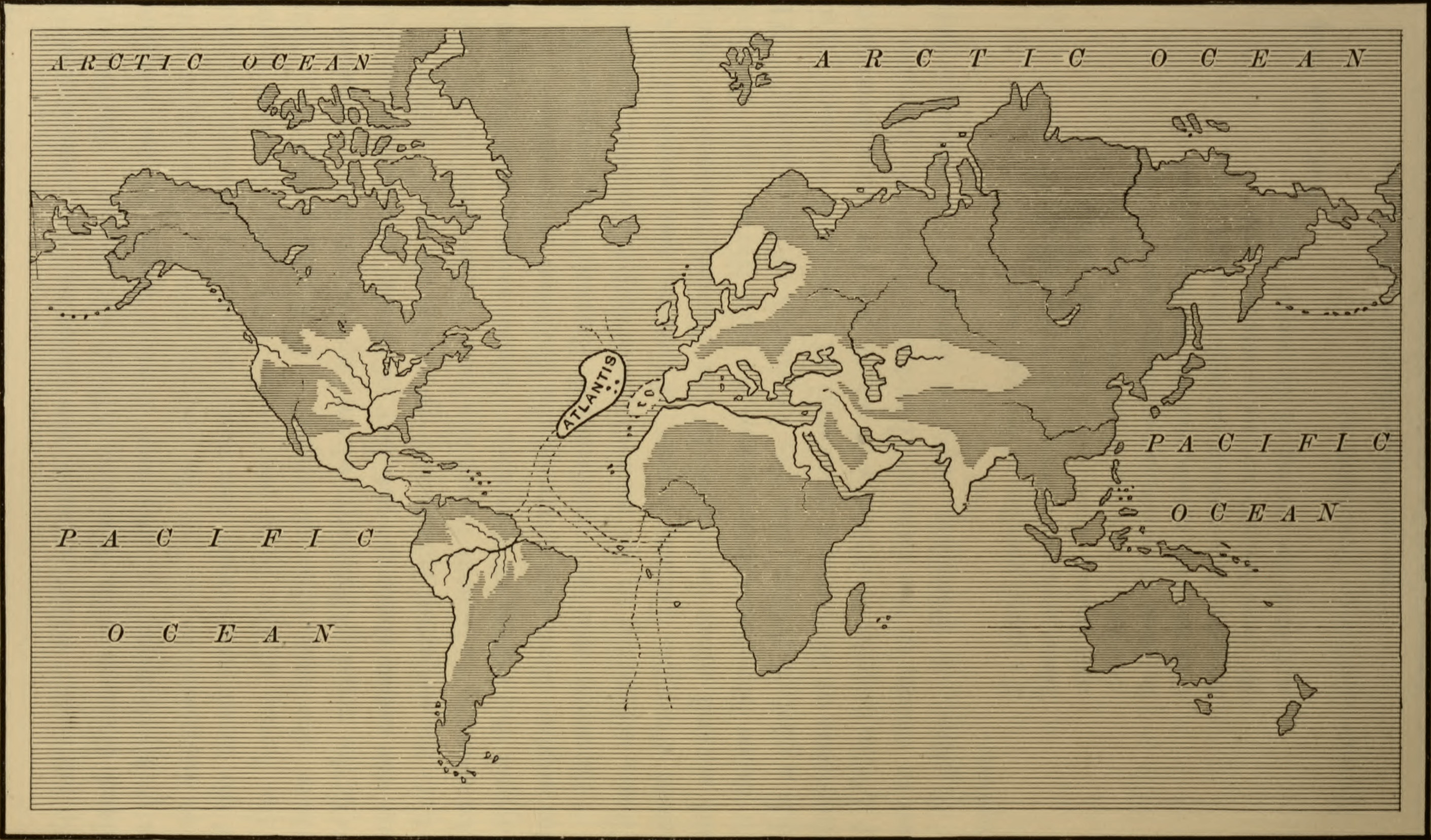 Map of the Atlantean Empire, from Ignatius Donelly's Atlantis: the Antediluvian World, 1882.